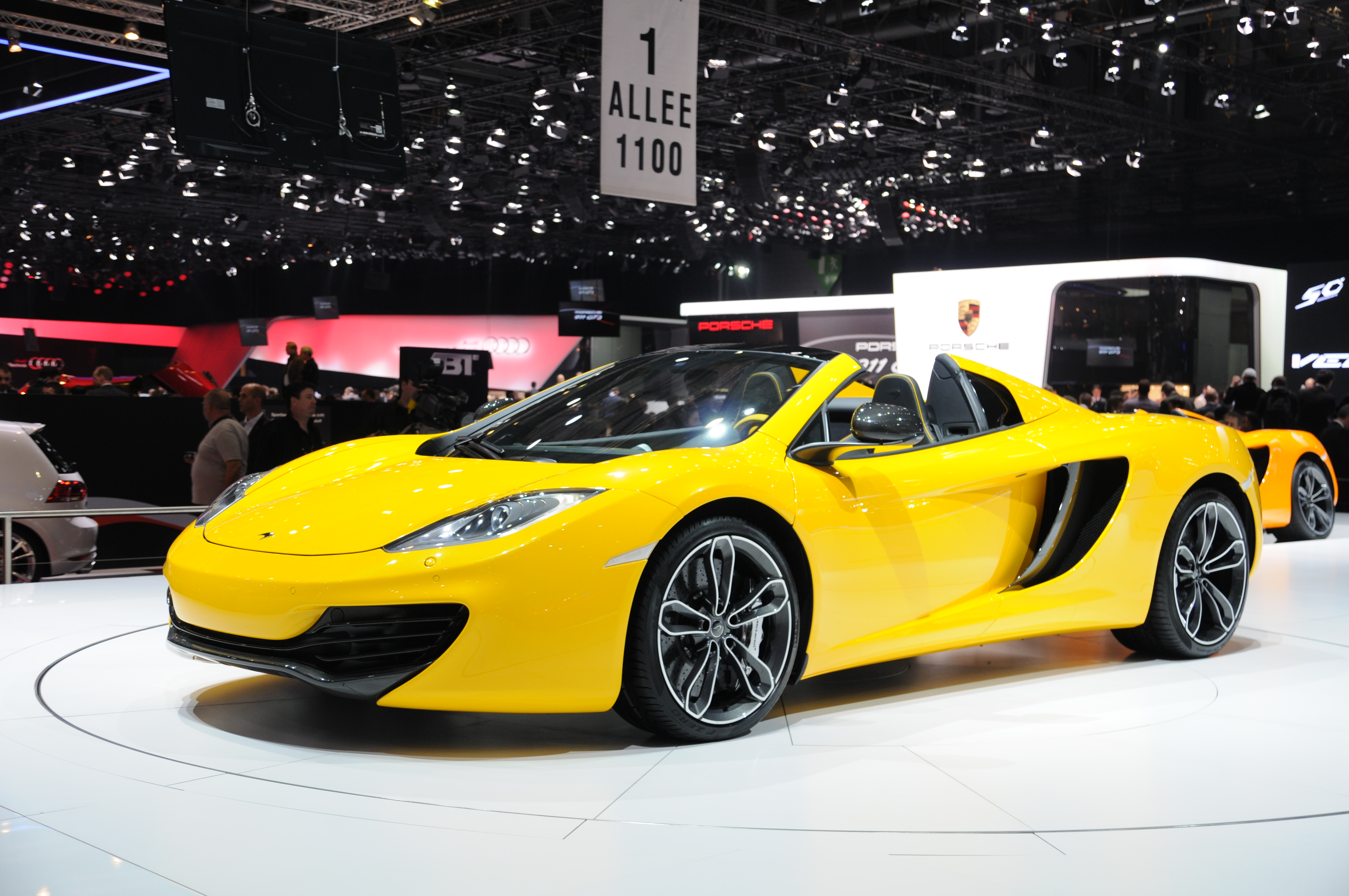 Geneva Motor Show 2013 (photos taken on the first press day)